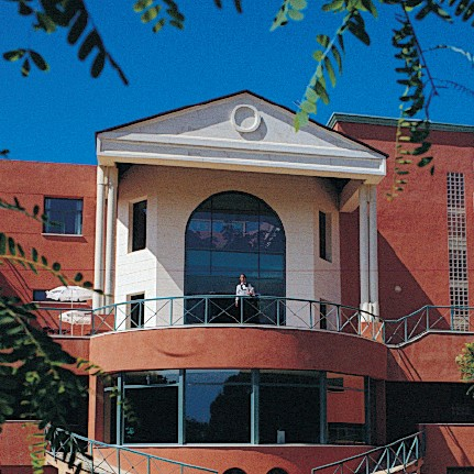 LRM balcony